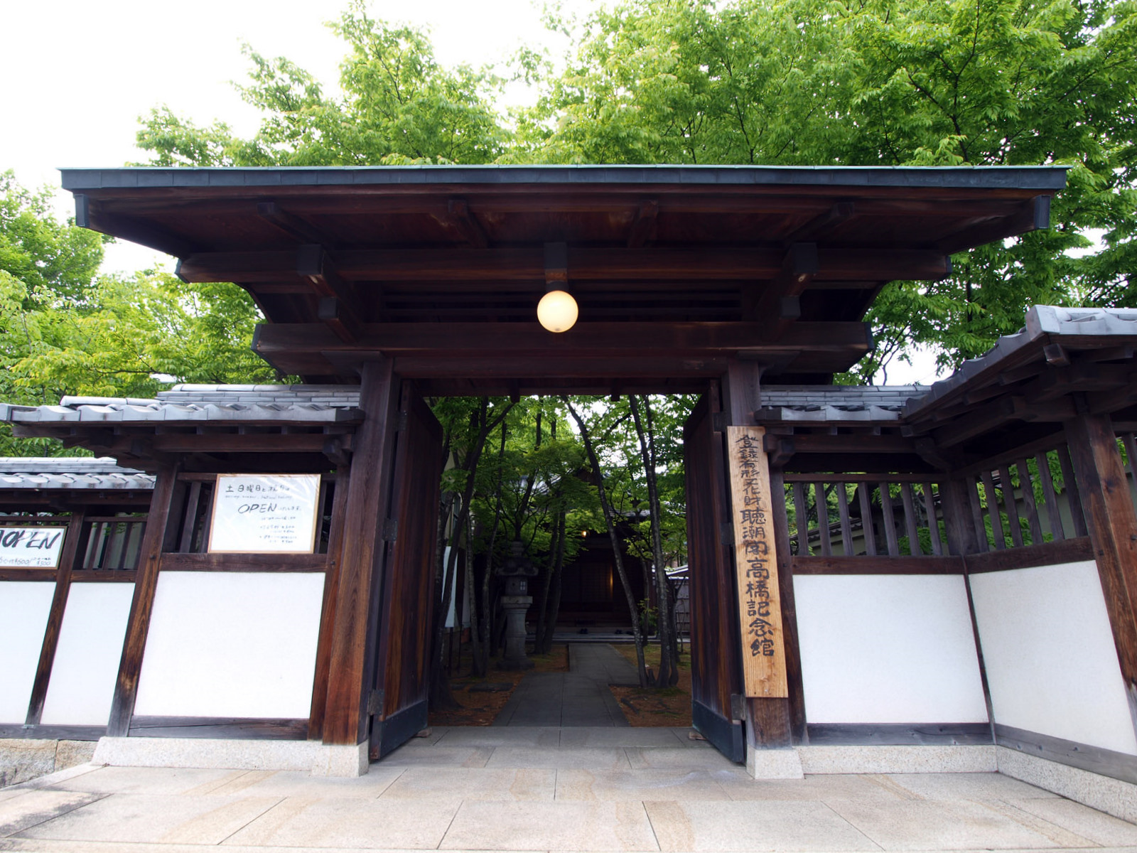 Chouchou-kaku, Beppu City, Oita Prefecture